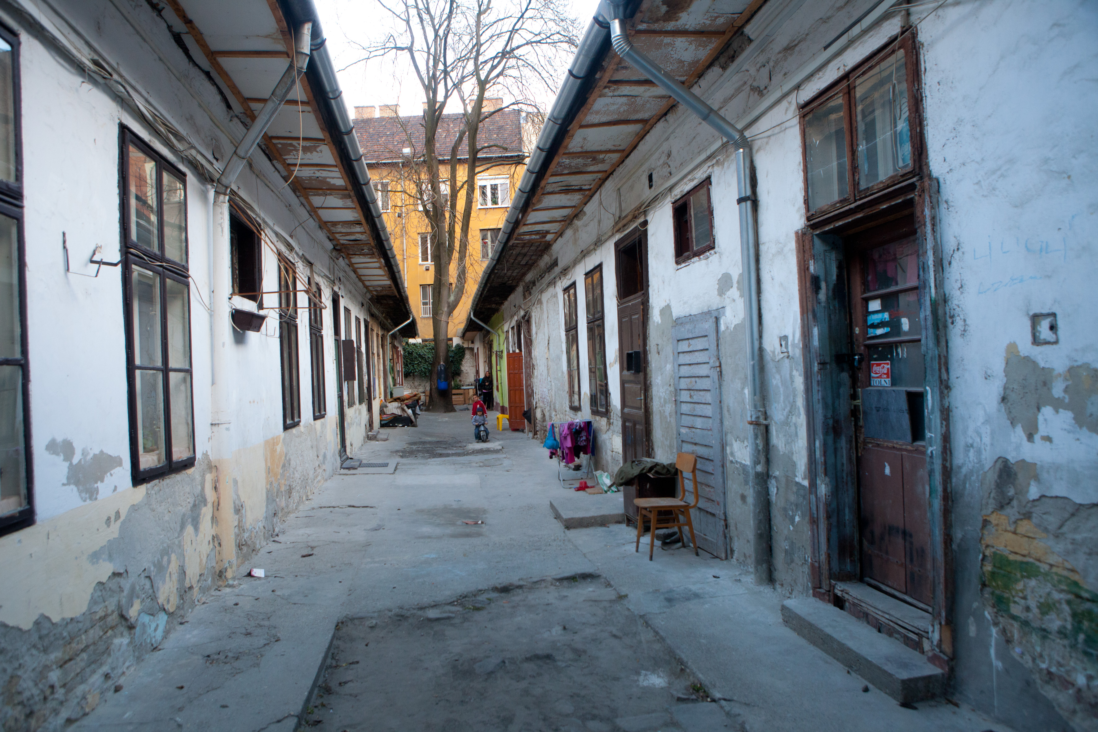 Bauer Sándor utca 11?